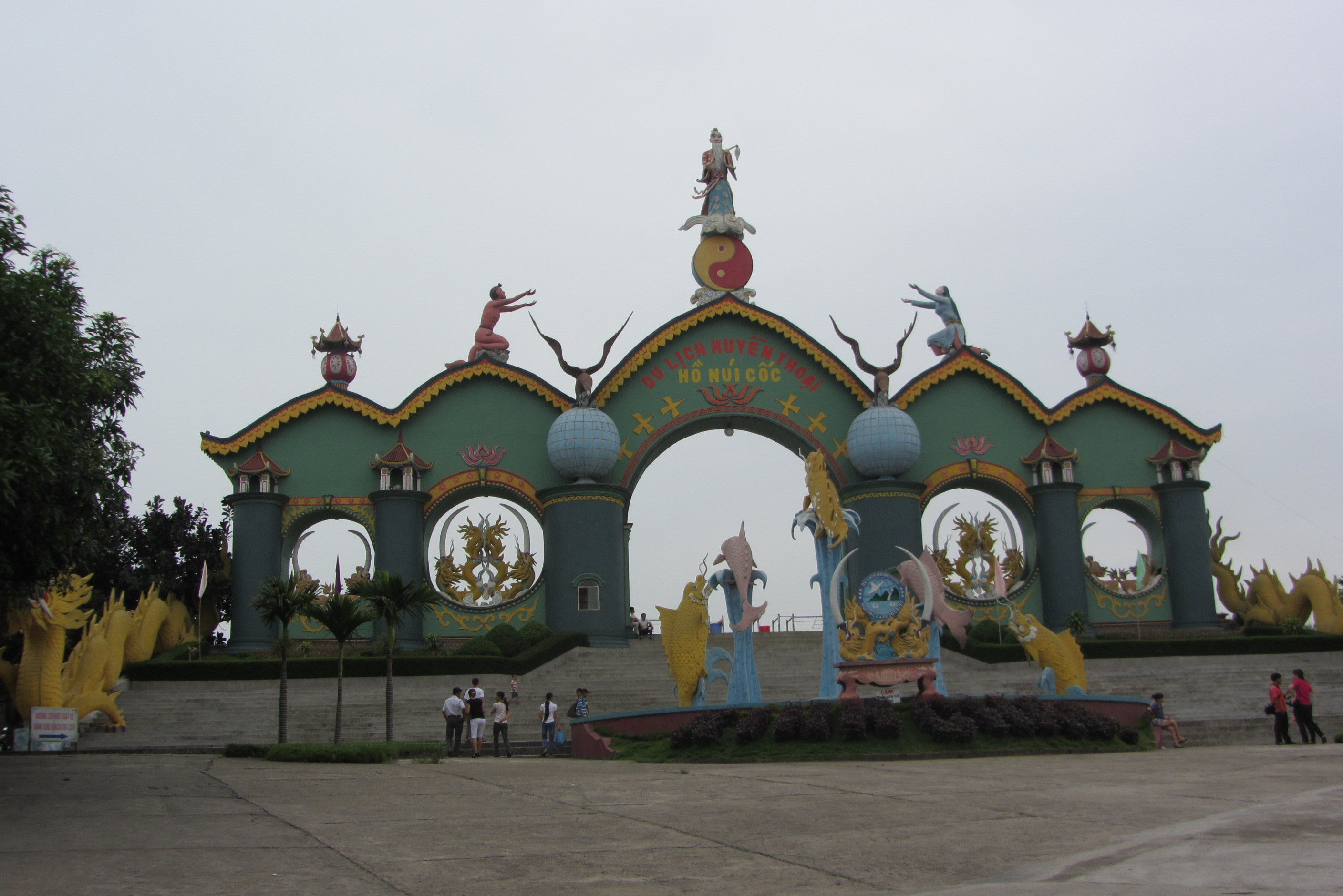 Gateway to Nui Coc Lake, Thai Nguyen Province, Vietnam